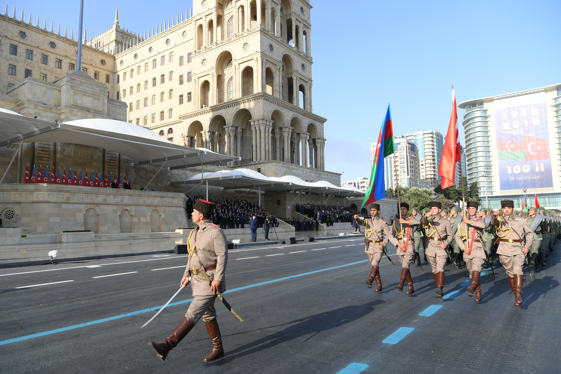 Ilham Aliyev and Recep Tayyip Erdogan attended the parade dedicated to 100th anniversary of liberation of Baku